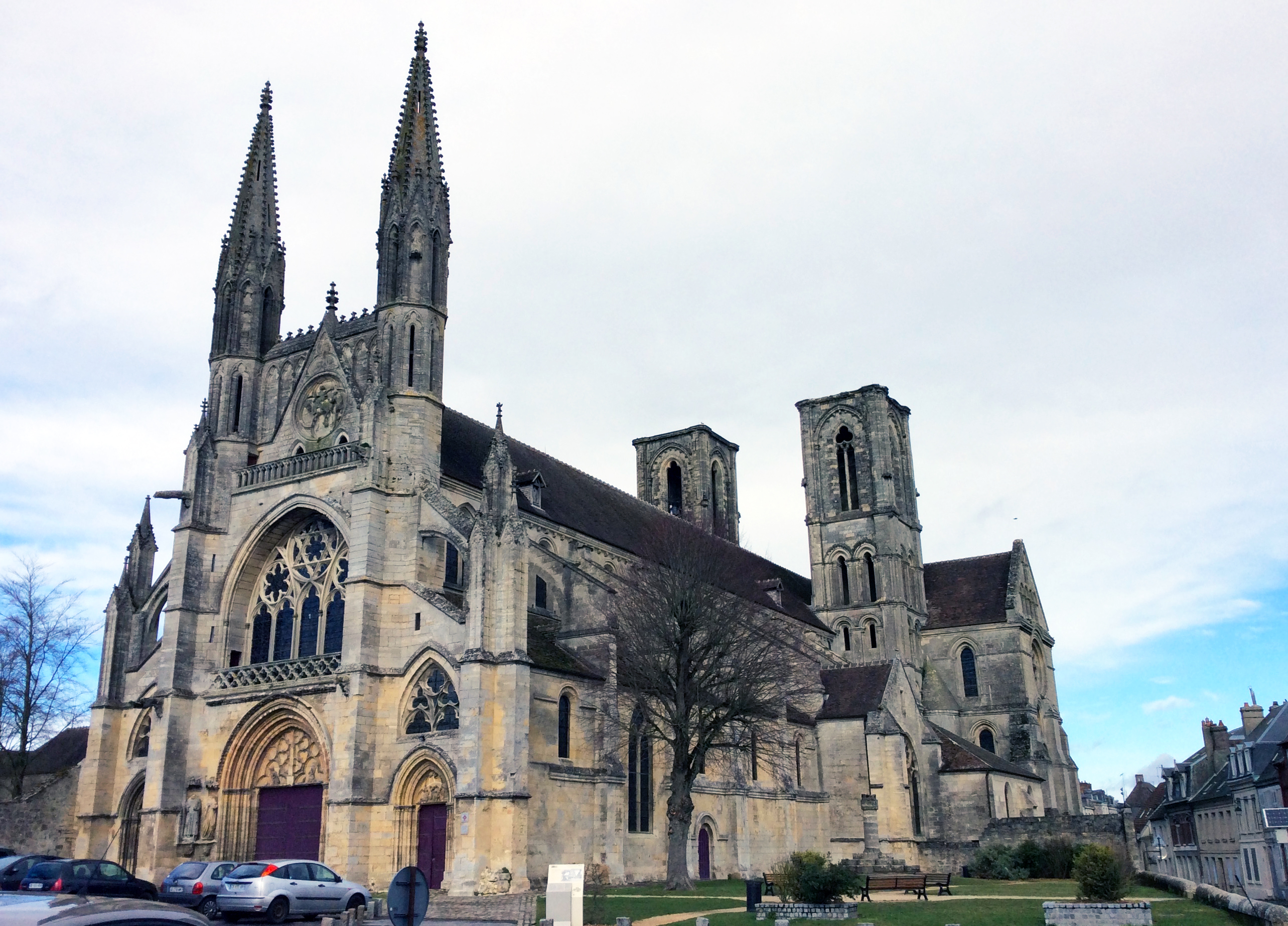 Old Abbey Church in Laon, France, 2019